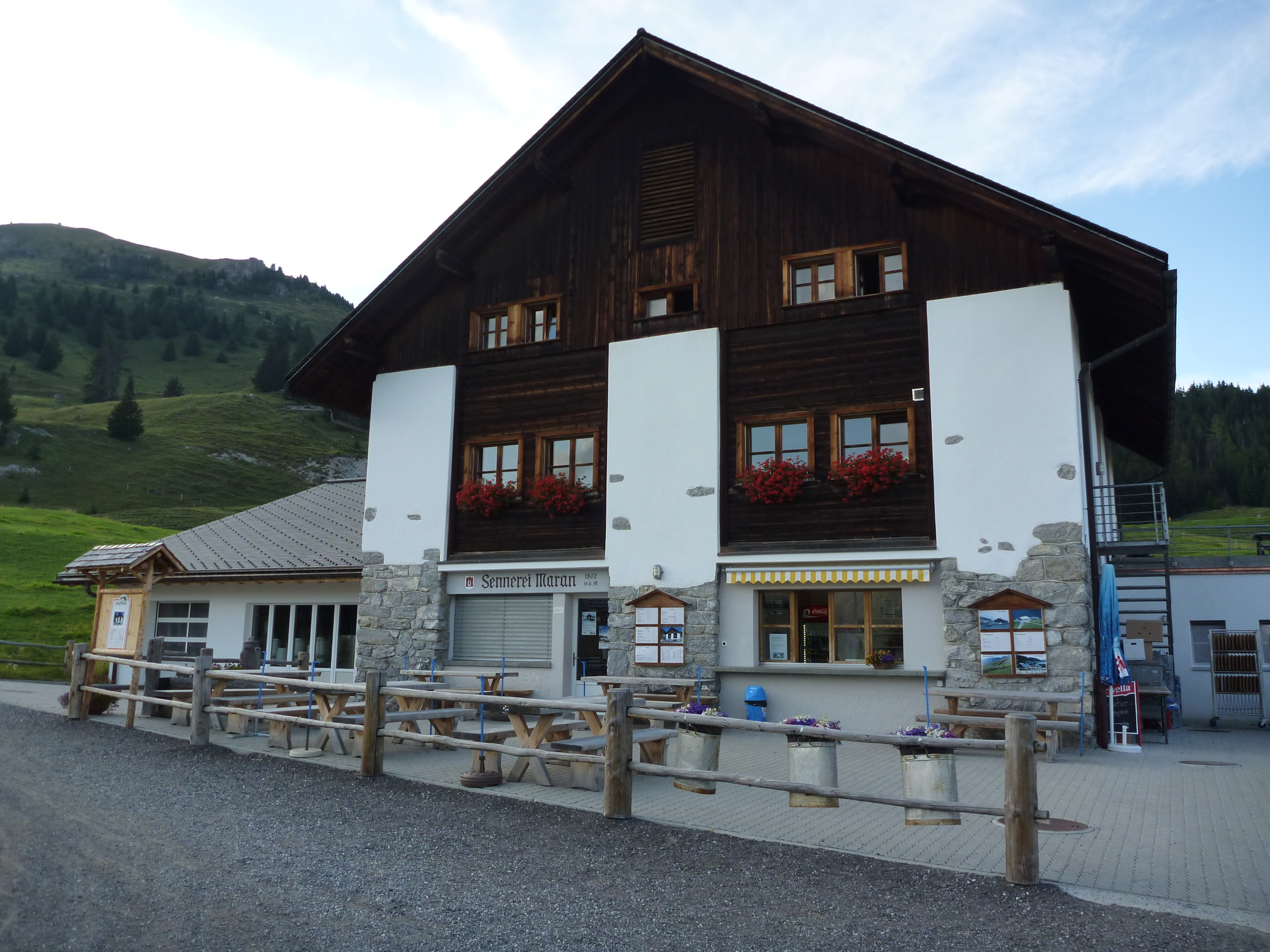 alpine dairy Maran in Arosa